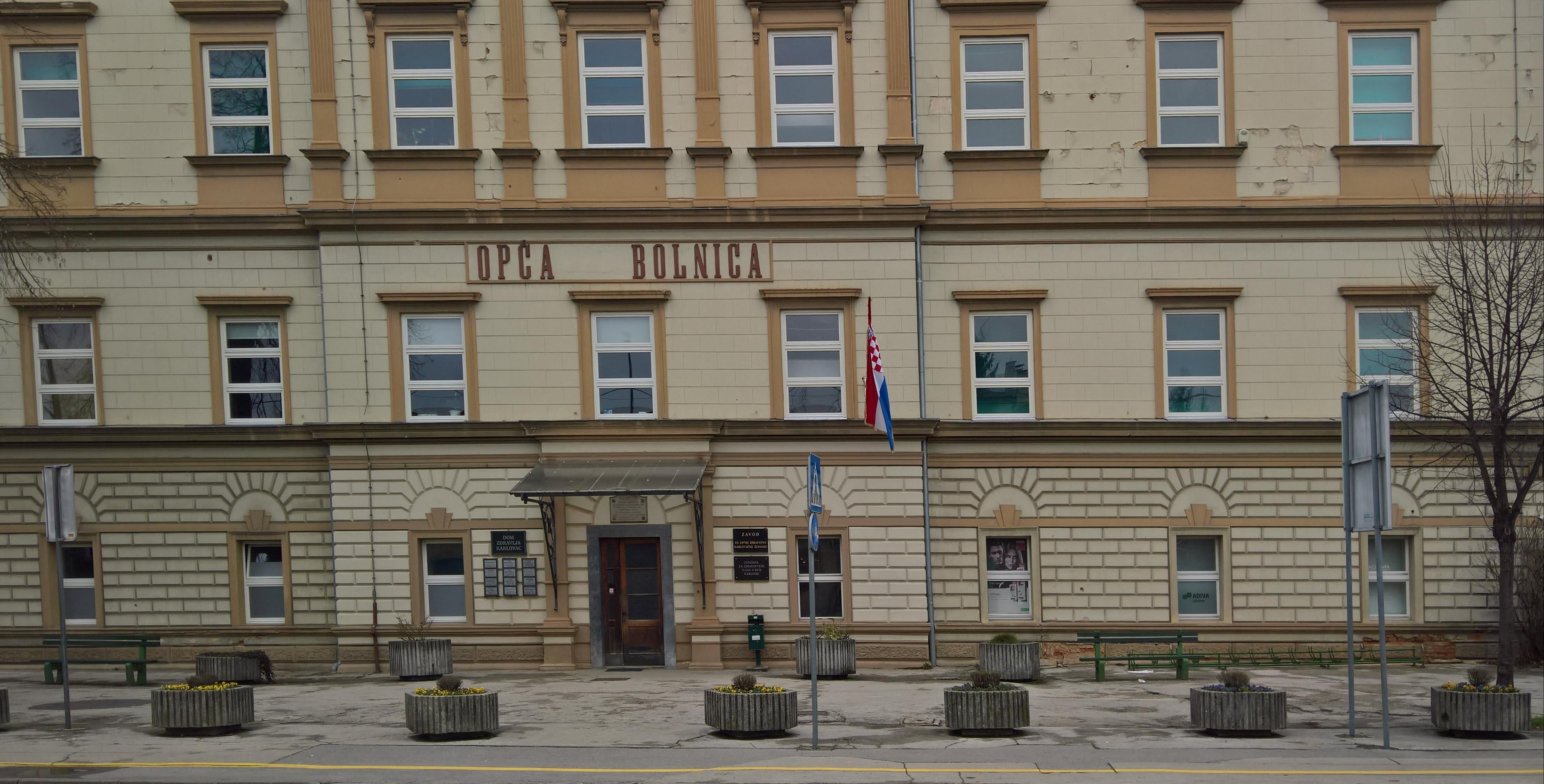 Karlovac General hospital.